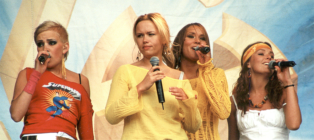 EyeQ in concert. From the left: Louise Lolle, Trine Jepsen, Sofie Hviid & Julie Næslund. Copyright: I hereby state that i'm the creator of this photographic work, and that it is uploaded to Wikipedia under GFDL with my knowledge. Philip Meisner